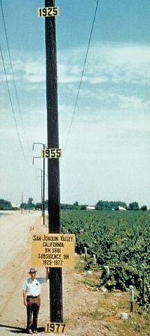 Approximate location of maximum subsidence in the United States identified by research efforts of Dr. Joseph F. Poland (pictured). Signs on pole show approximate altitude of land surface in 1925, 1955, and 1977. The site is in the San Joaquin Valley southwest of Mendota, California. The compaction of unconsolidated aquifer systems that can accompany excessive ground-water pumping is by far the single largest cause of subsidence. The overdraft of such aquifer systems has resulted in permanent subsidence and related ground failures. In aquifer systems that include semiconsolidated silt and clay layers (aquitards) of sufficient aggregate thickness, long-term ground-water-level declines can result in a vast one-time release of “water of compaction” from compacting aquitards, which manifests itself as land subsidence.